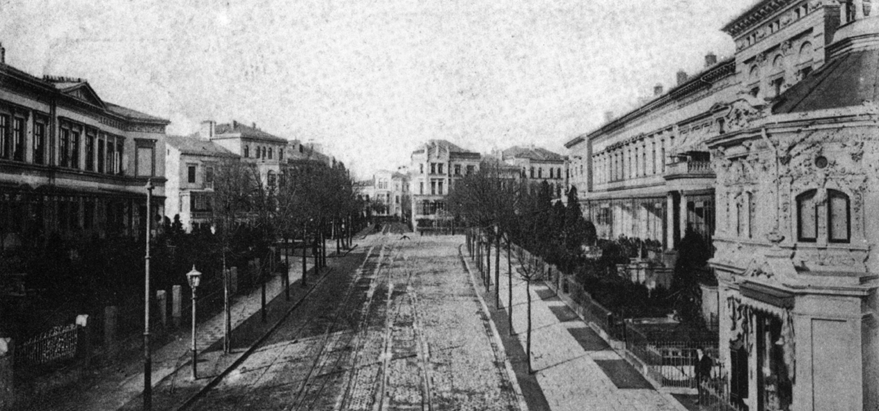 The Schwachhauser Chaussee (today Schwachhauser Heerstraße) in Bremen in the year 1899. Looking from the railroad tracks connecting Bremen with Hannover towards the street Am Dobben.